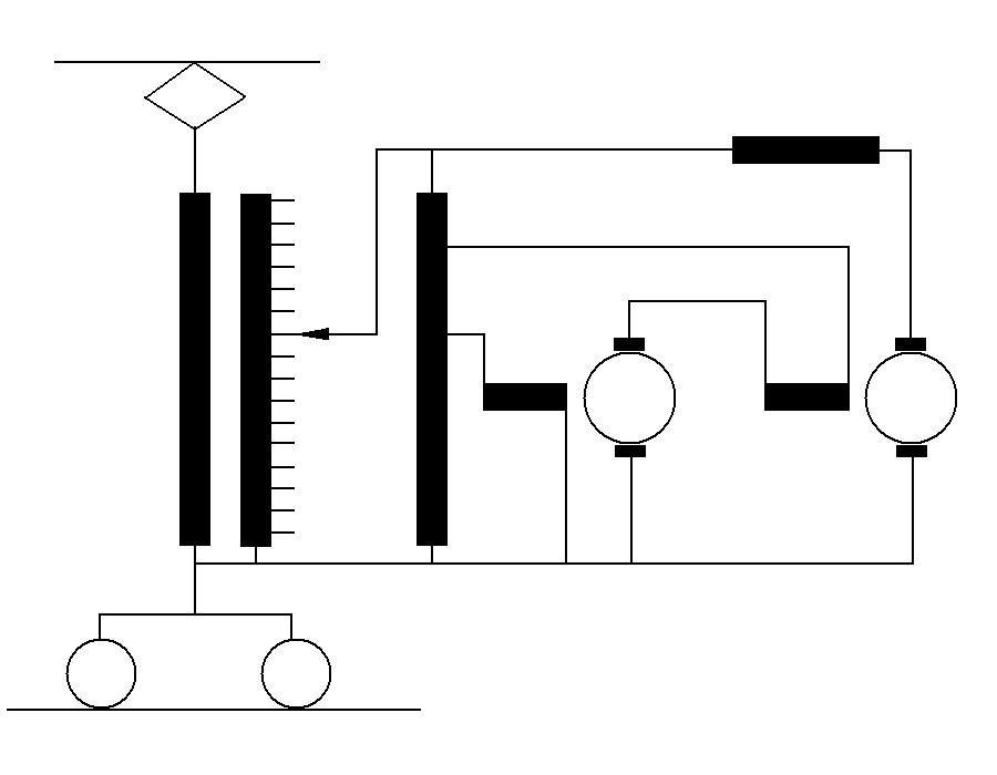 Regenerative brake in arrangement with exciting motor. Drawing based on Sommer,Senn:Entwicklung und Nutzen der elektrischen Rekuperationsbremse bei den SBB, Schweizer Eisenbahn-Revue 6/1996